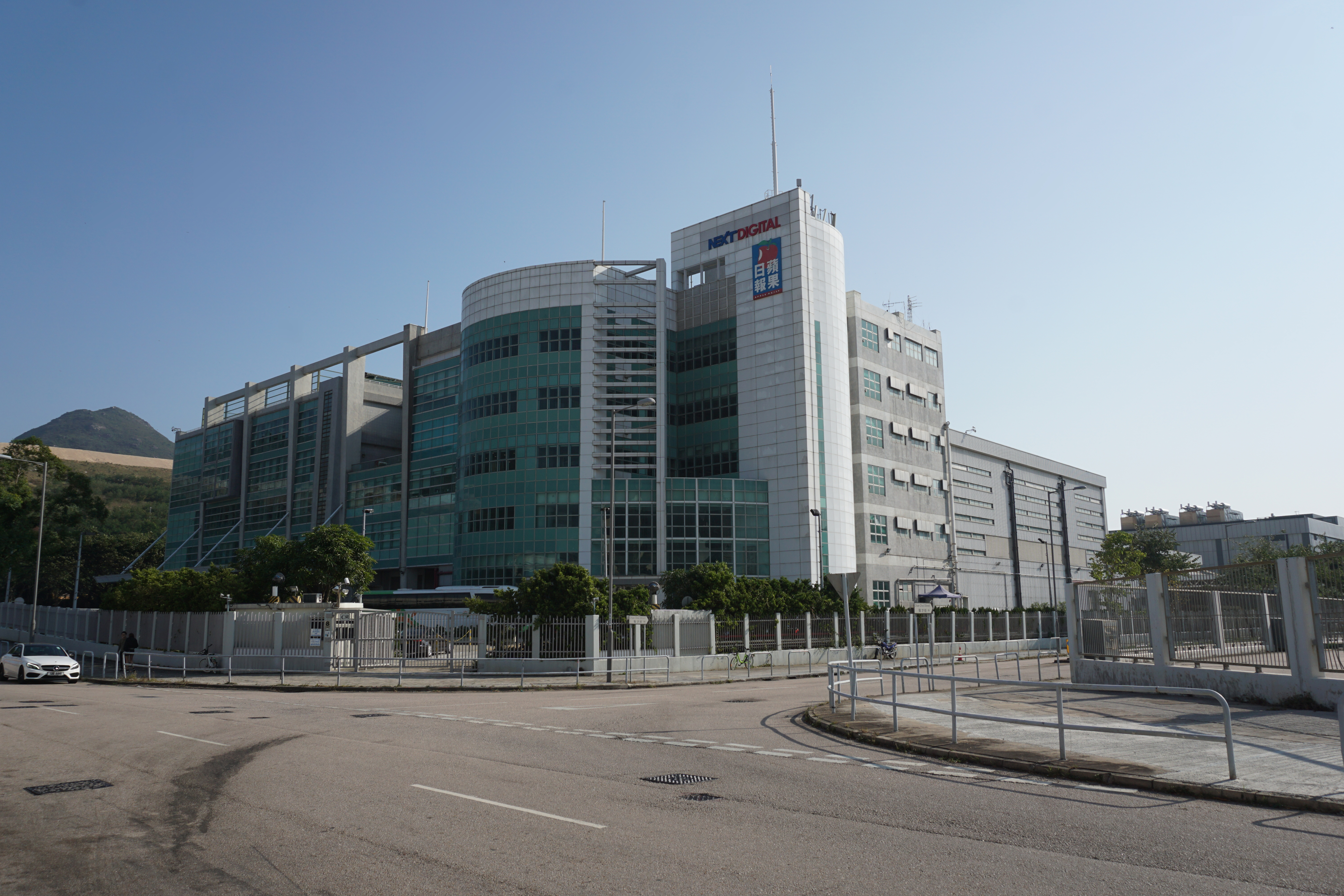 Apple Daily Headquarters in Tai Chik Sha, Hong Kong.